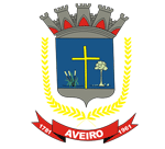 Coat of arm of the city of Aveiro, Pará, Brazil.